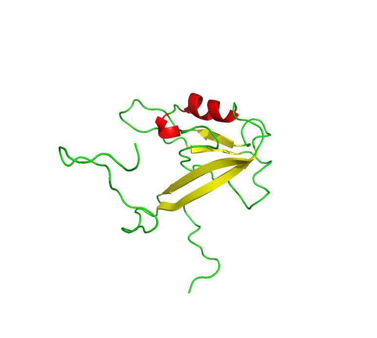 This is a structure of Interleukin 16.